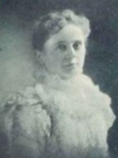 Gertrude Hull in 1898 as a history teacher